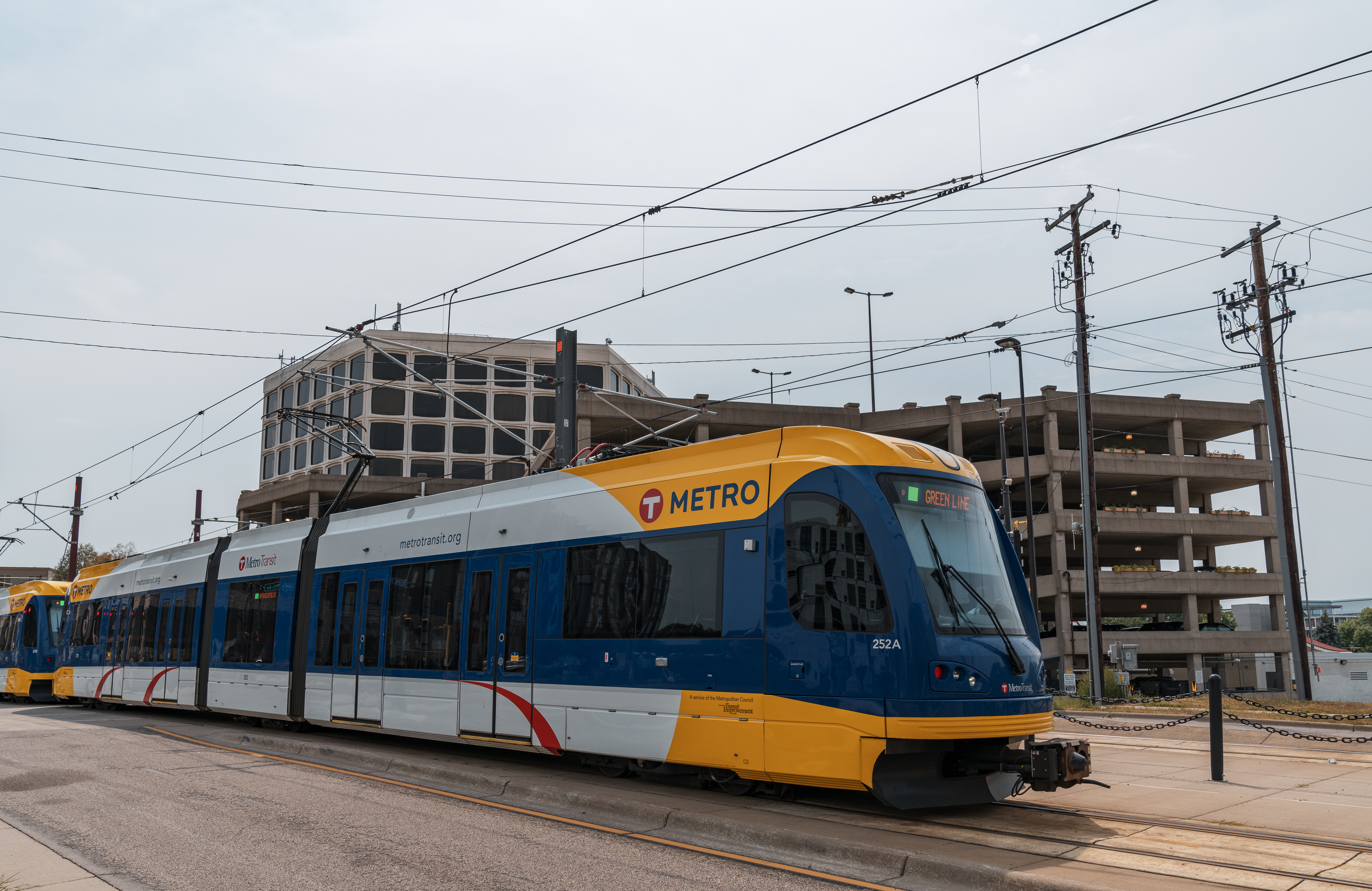 A Metro Transit green line light rail train departs the Prospect Park station near University Avenue and the University of Minnesota campus in Minneapolis, Minnesota.